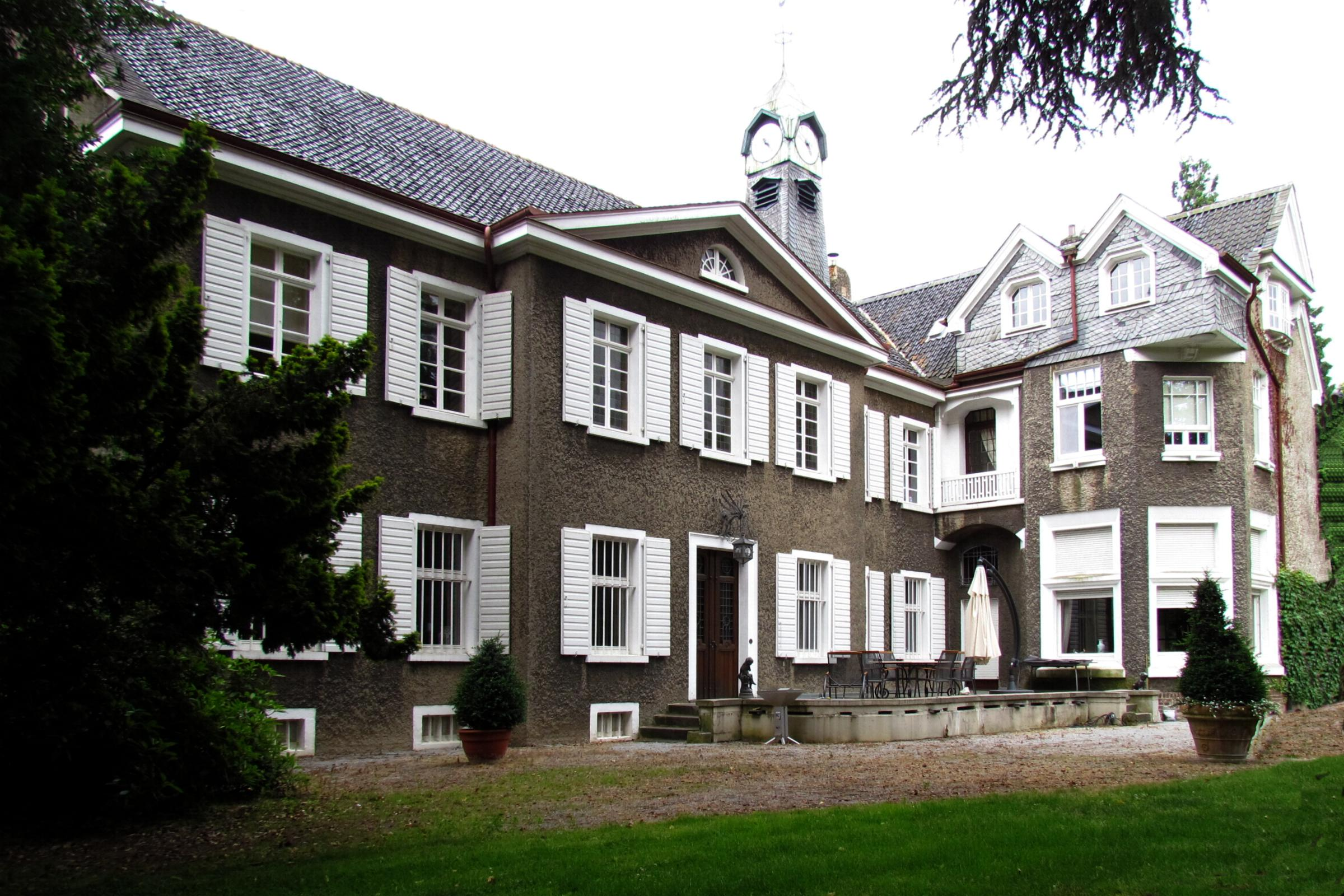 This is a photograph of an architectural monument.It is on the list of cultural monuments of Korschenbroich